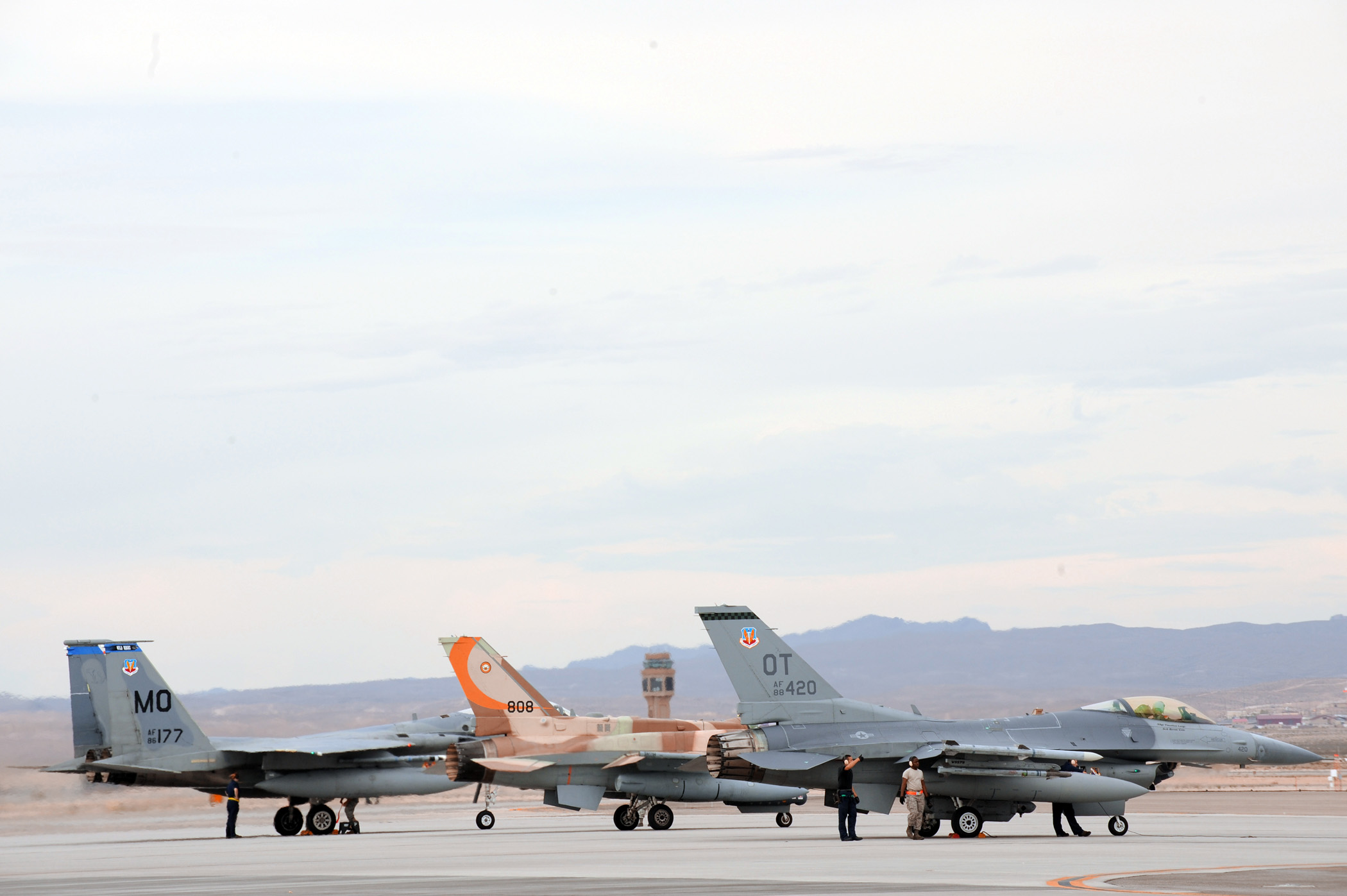 An F-15C Eagle, an Israeli F-16I and an F-16 Fighting Falcon wait at the end of the runway at Nellis Air Force Base, Nev., before departing on a training mission during Red Flag 09-4